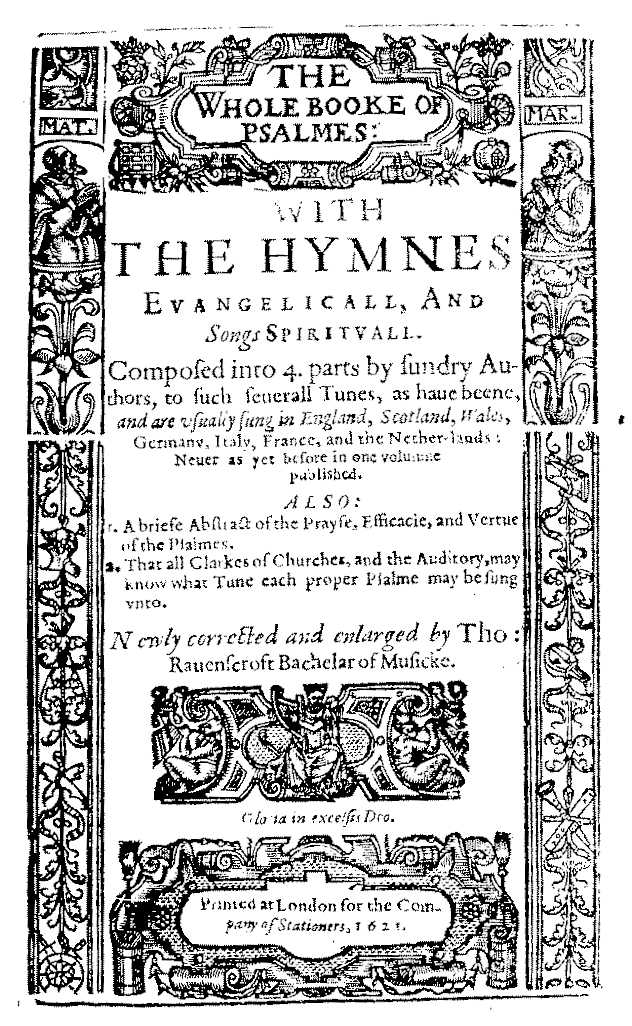 Cover of "The Whole Book of Psalmes" by Thomas Ravenscroft (1621), facsimile print